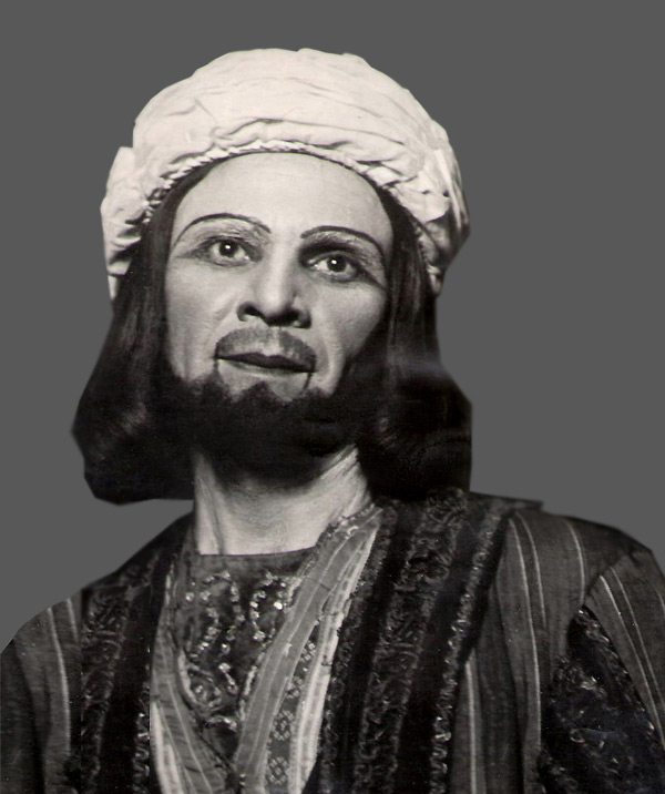 Abbas Mirza Sharifzade as Sheykh Sanan (play "Sheykh Sanan" of Huseyn Javid)